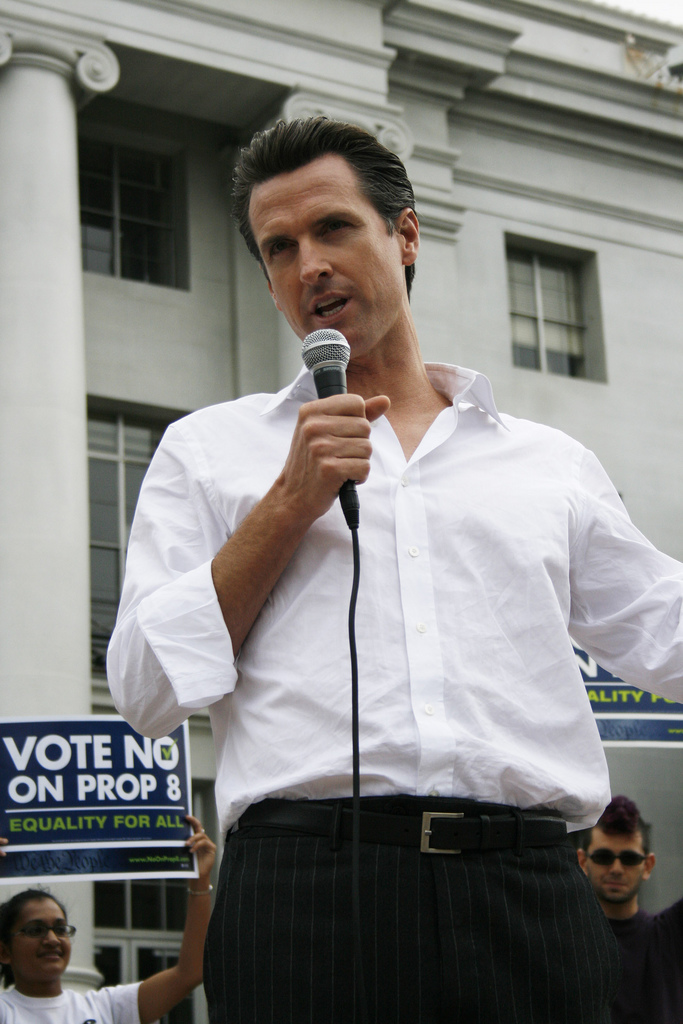 Gavin Newsom speaks out against Prop 8 at an Anti-Proposition 8 Rally at Sproul Plaza on Friday, October 3, 2008.